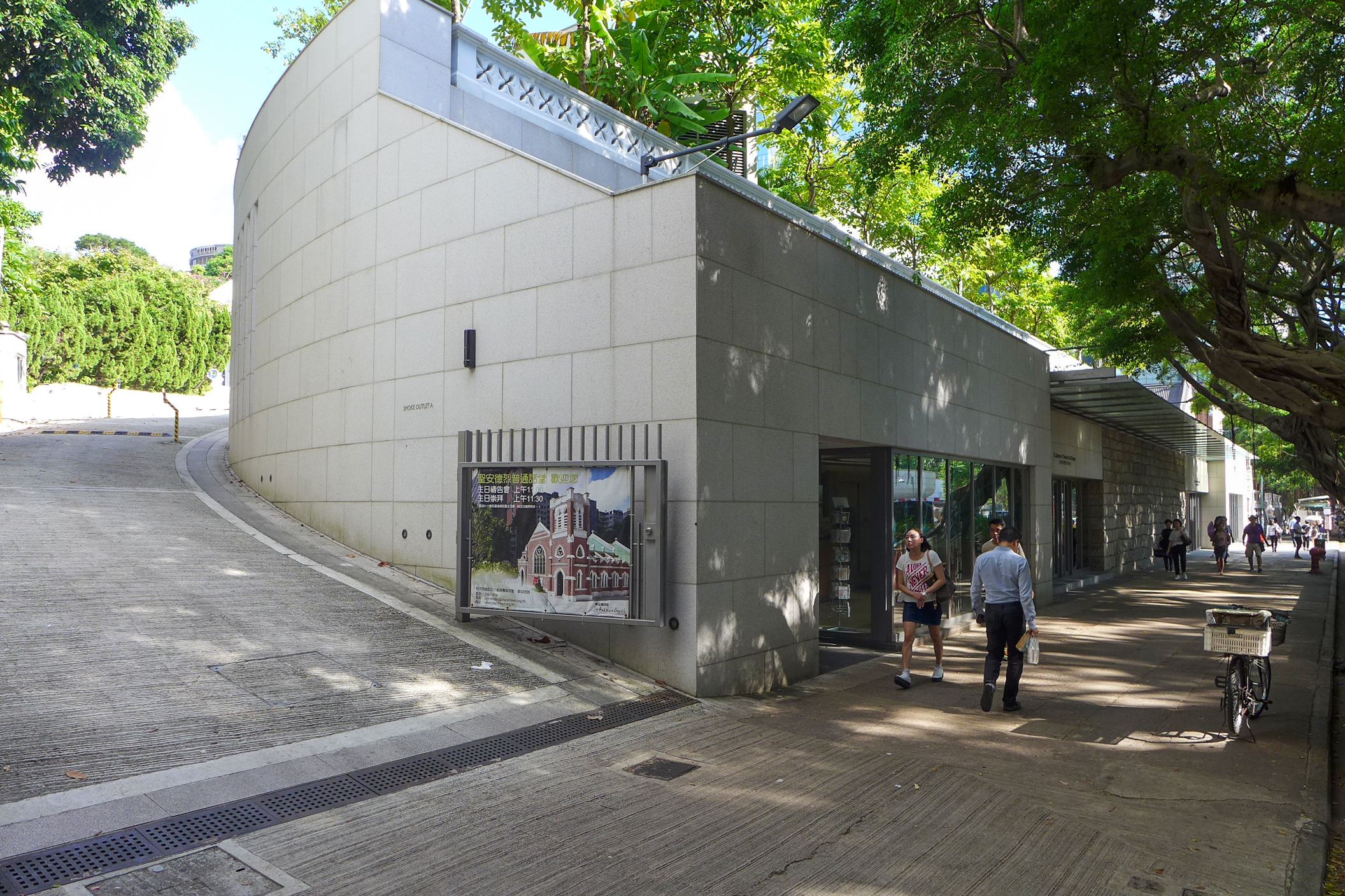 St Andrew's Church Life Centre